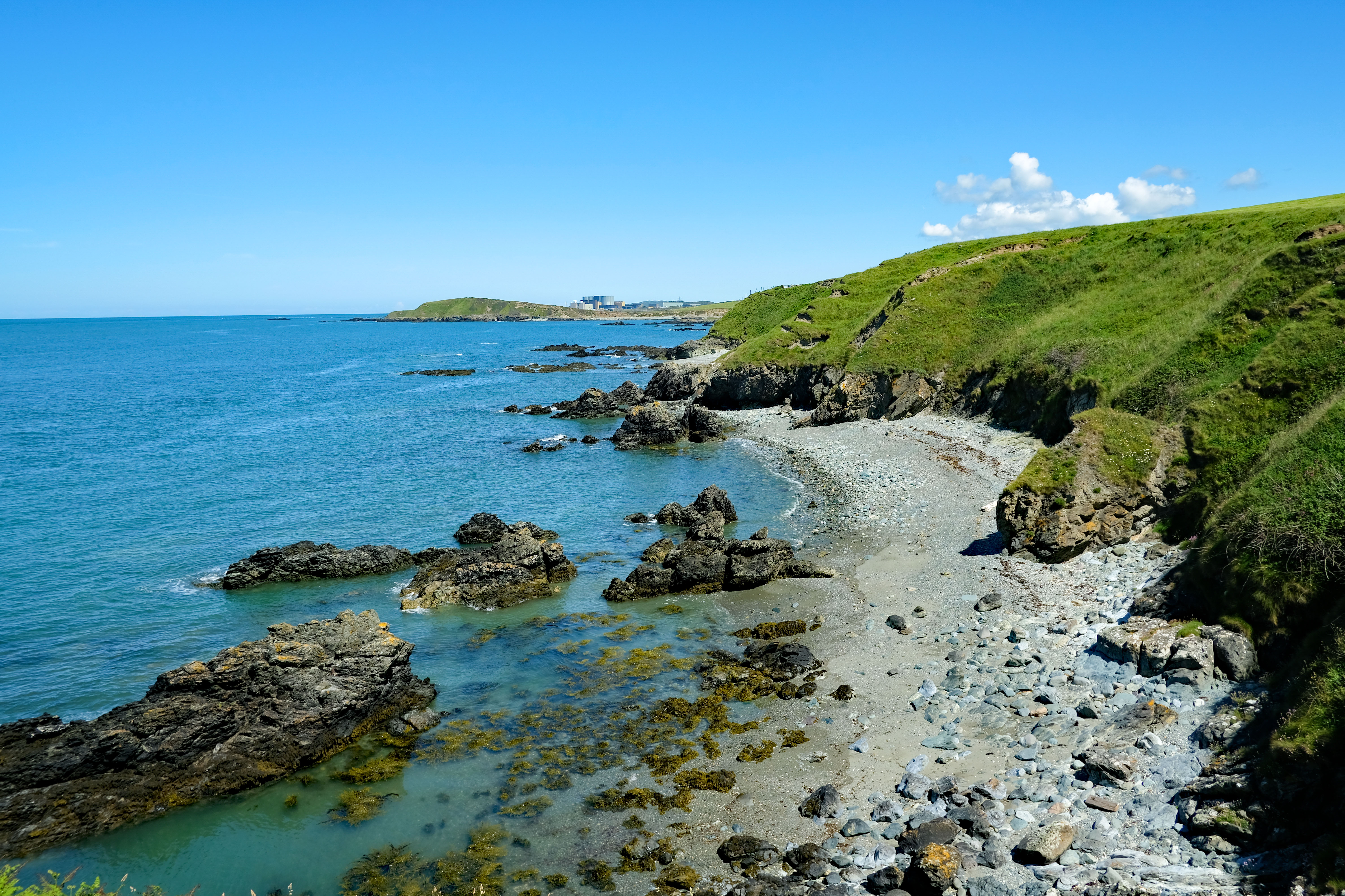 View from the Anglesey Coastal Path